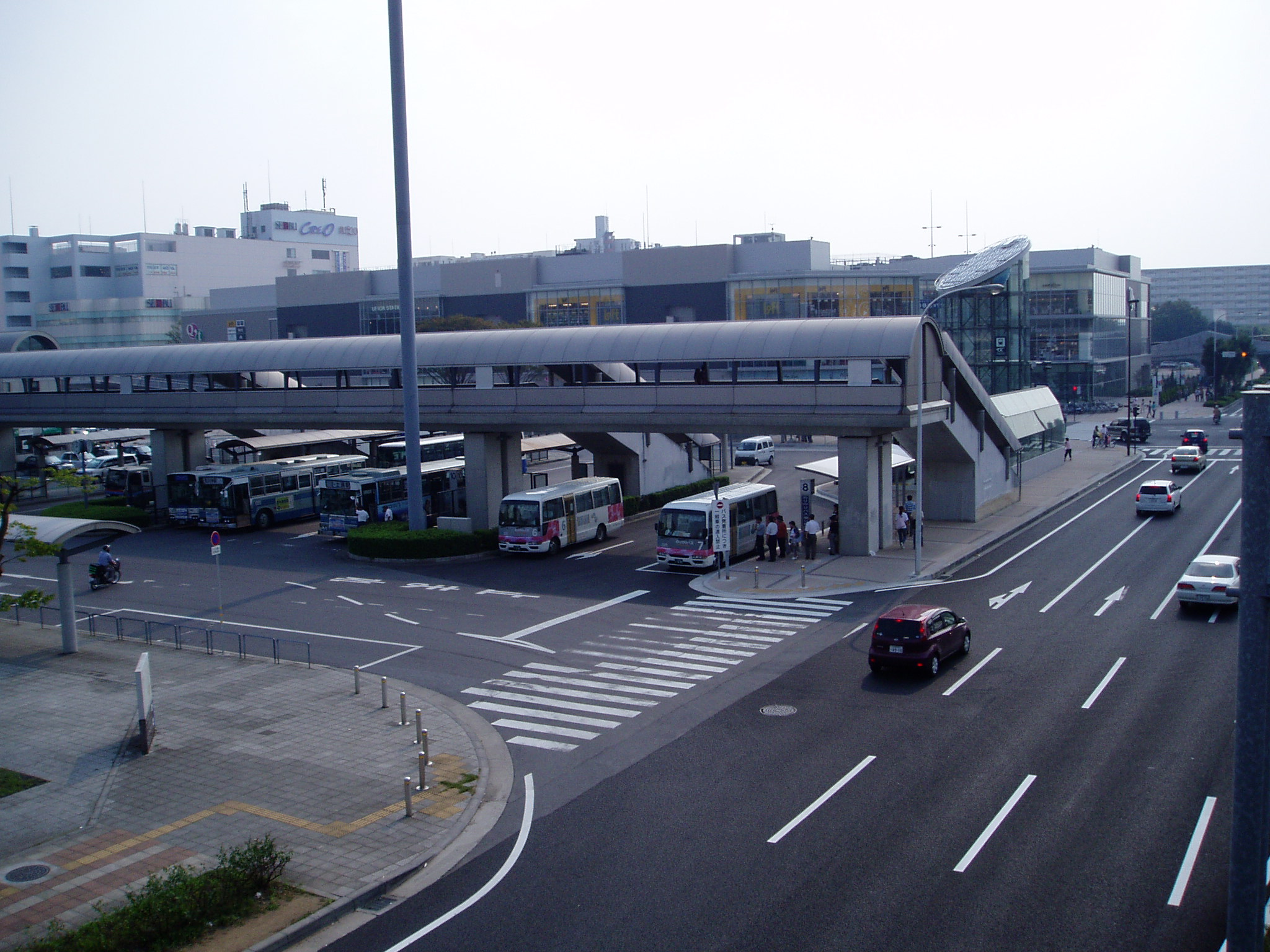 Tsukuba Center (Bus station adjacent to the Tsukuba Station)